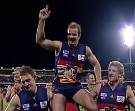 Mark Ricciuto being carried off the field after playing his 300th match at AAMI Stadium.